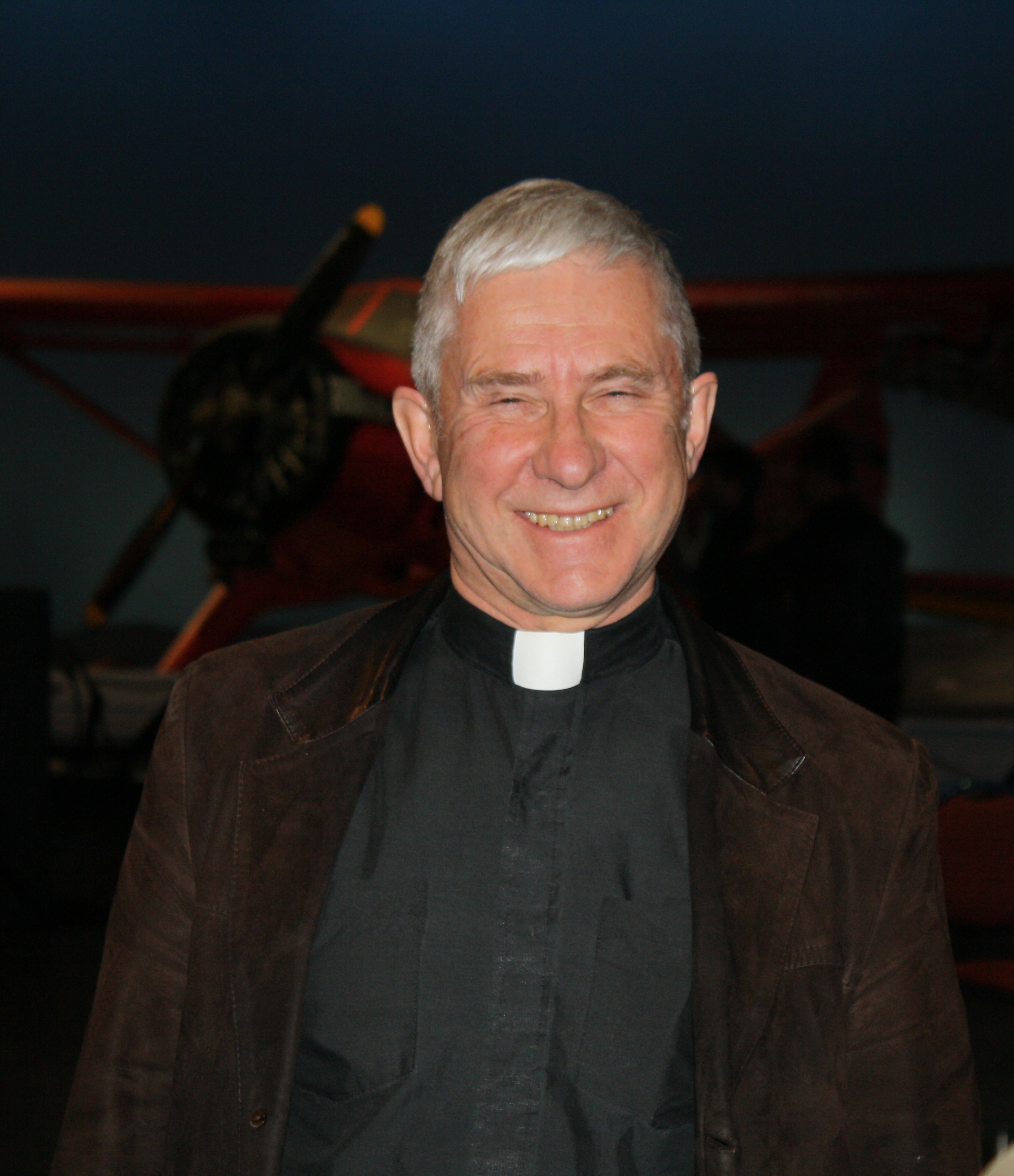 Peter Beck at the Wigram Airforce Museum.